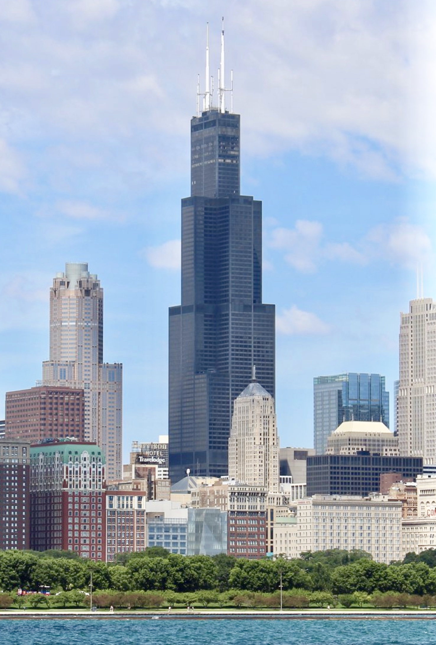 View of the Willis Tower from Lake Michigan in April 2019